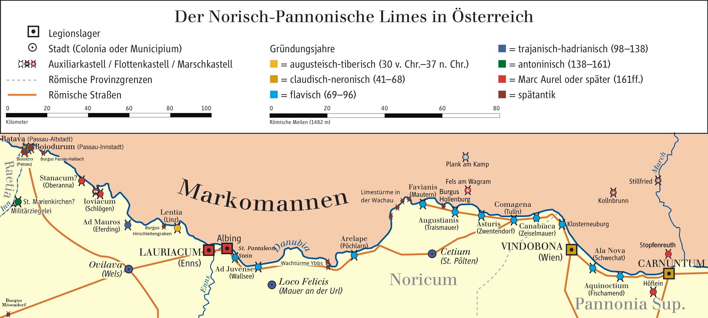 Map of Limes in Austria (system of fortifications representing the boundary of Roman control)